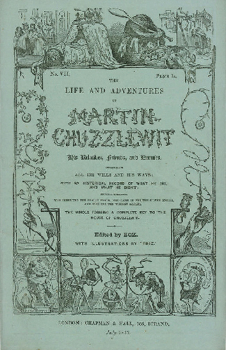 Cover of serial, "Martin Chuzzlewitt" by Charles Dickens